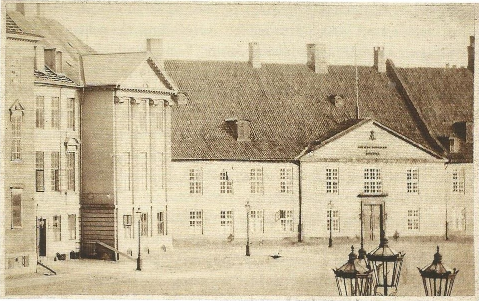 The artillery school, on Kongens Nytorv, Copenhagen, Denmark. Picture is taken in 1860